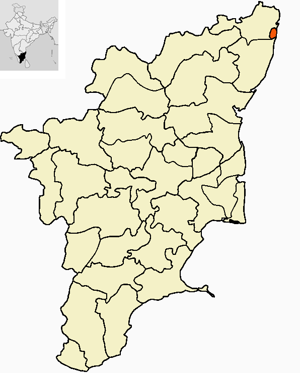 Locator map of Chennai district, Tamil Nadu, India